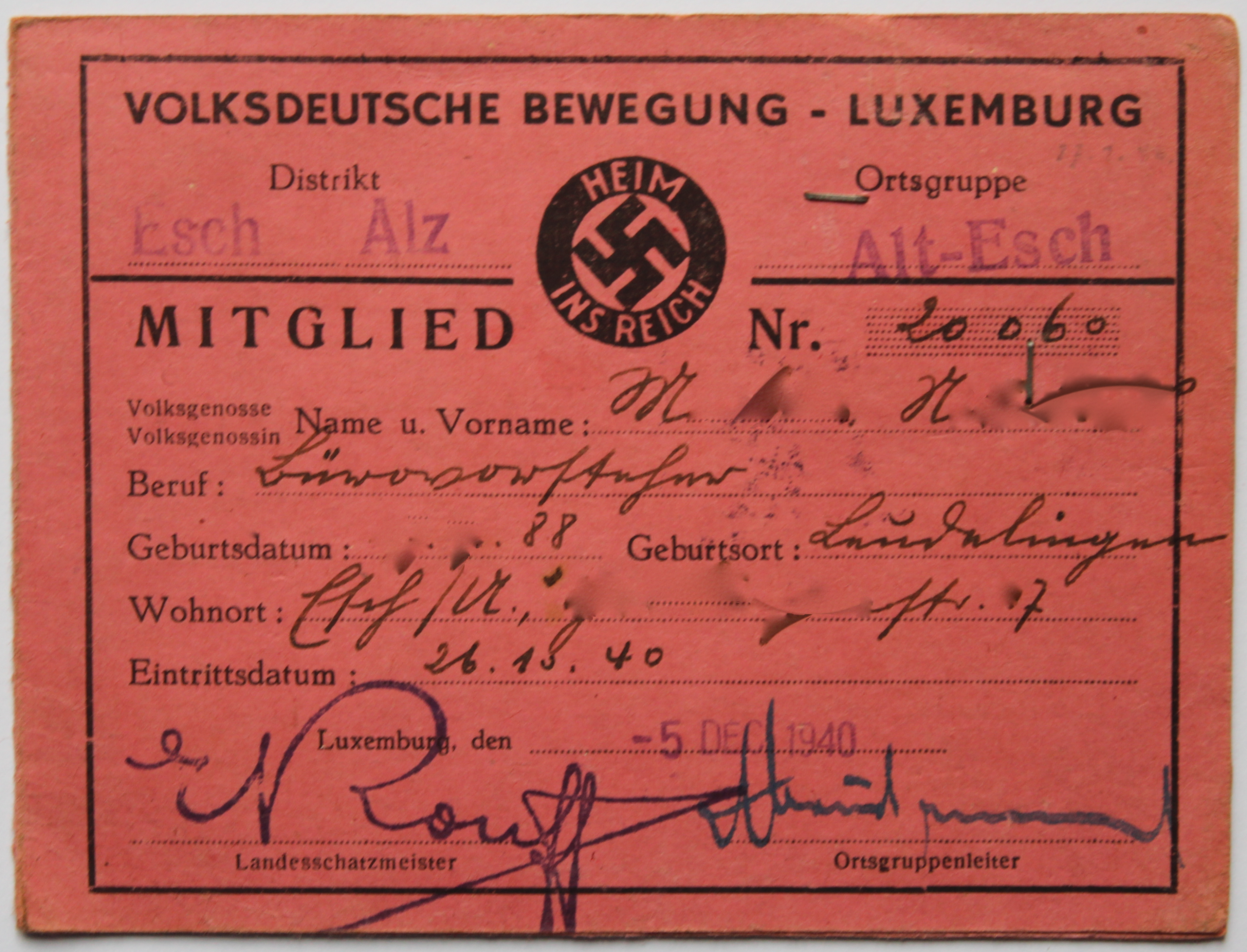 A membership card of Volksdeutsche Bewegung, a pro-Nazi movement in Luxembourg, founded in 1940. This card belonged to a Head of office from Esch-sur-Alzette. (Some personal data have been anomymised.)